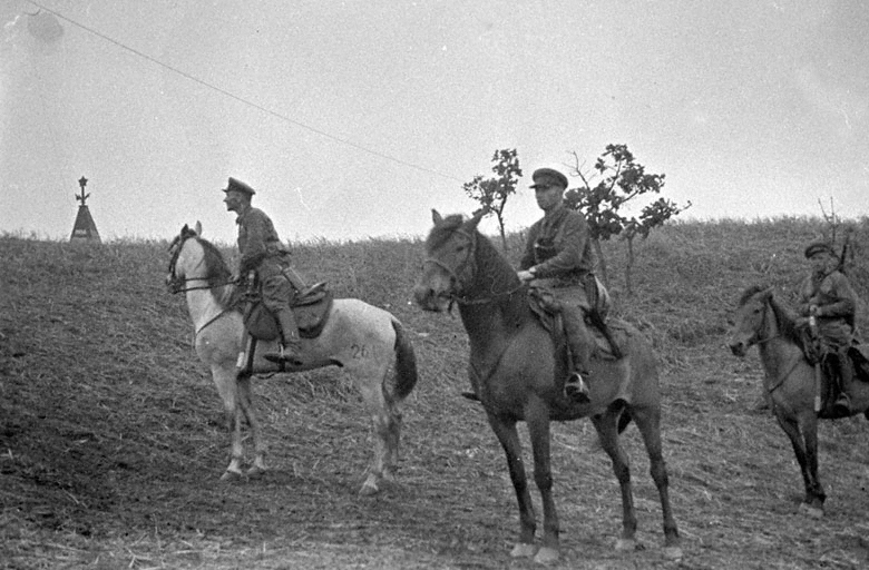 Battle of Lake Khasan-Red Army cavalry on patrol